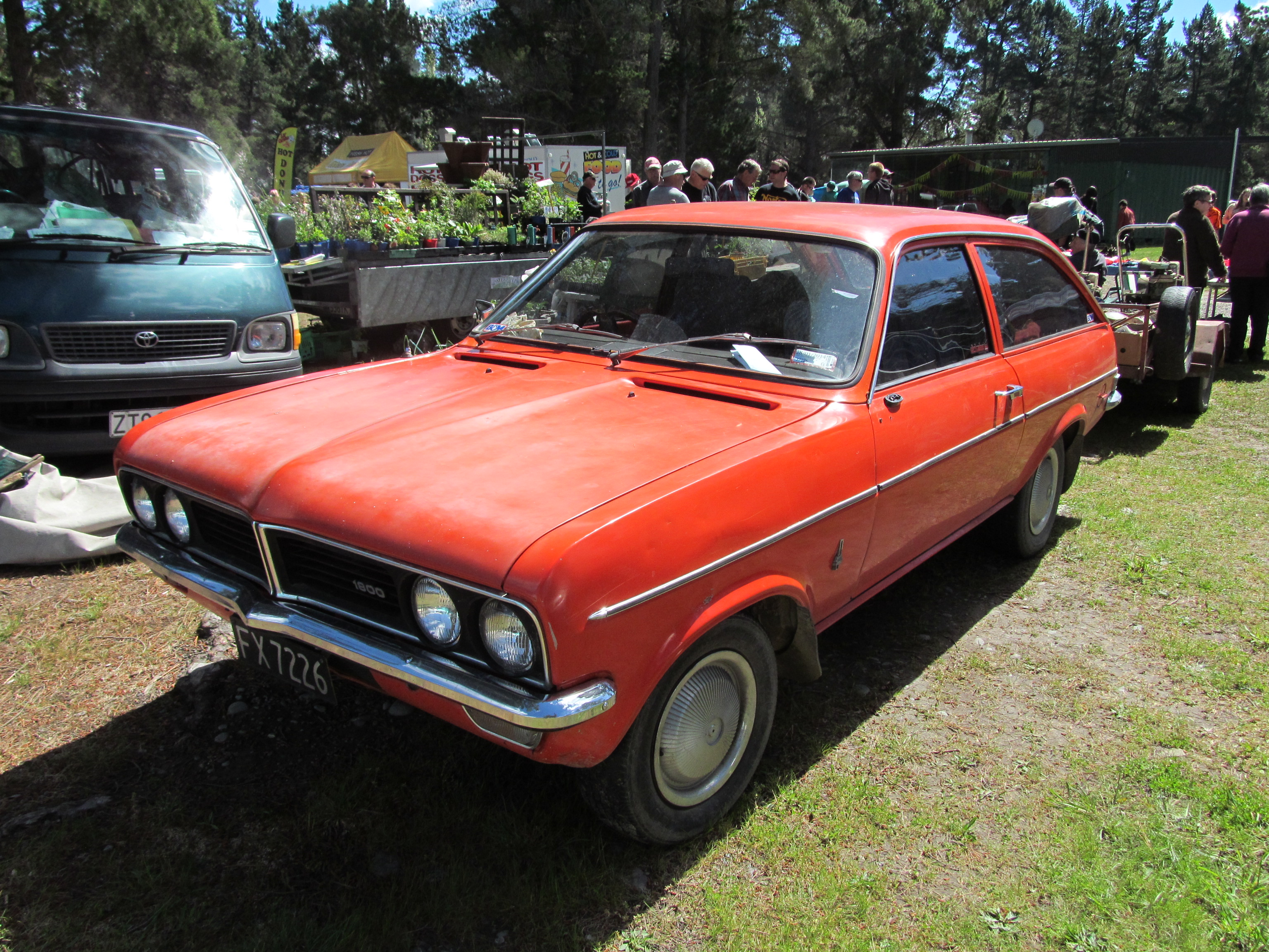 FX7226 This is registered as a Vauxhall Firenza, which is clearly wrong as the HC Viva was only called Firenza in Canada (aside from the coupe). The one here had been used to transport stock to the owner's stall, and was by no means immaculate. All the better for it I say!